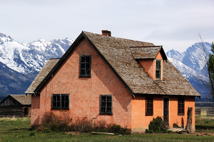 A house on the John Moulton ranch in the Mormon Row Historic District, Montana. See Mormon Row Historic District